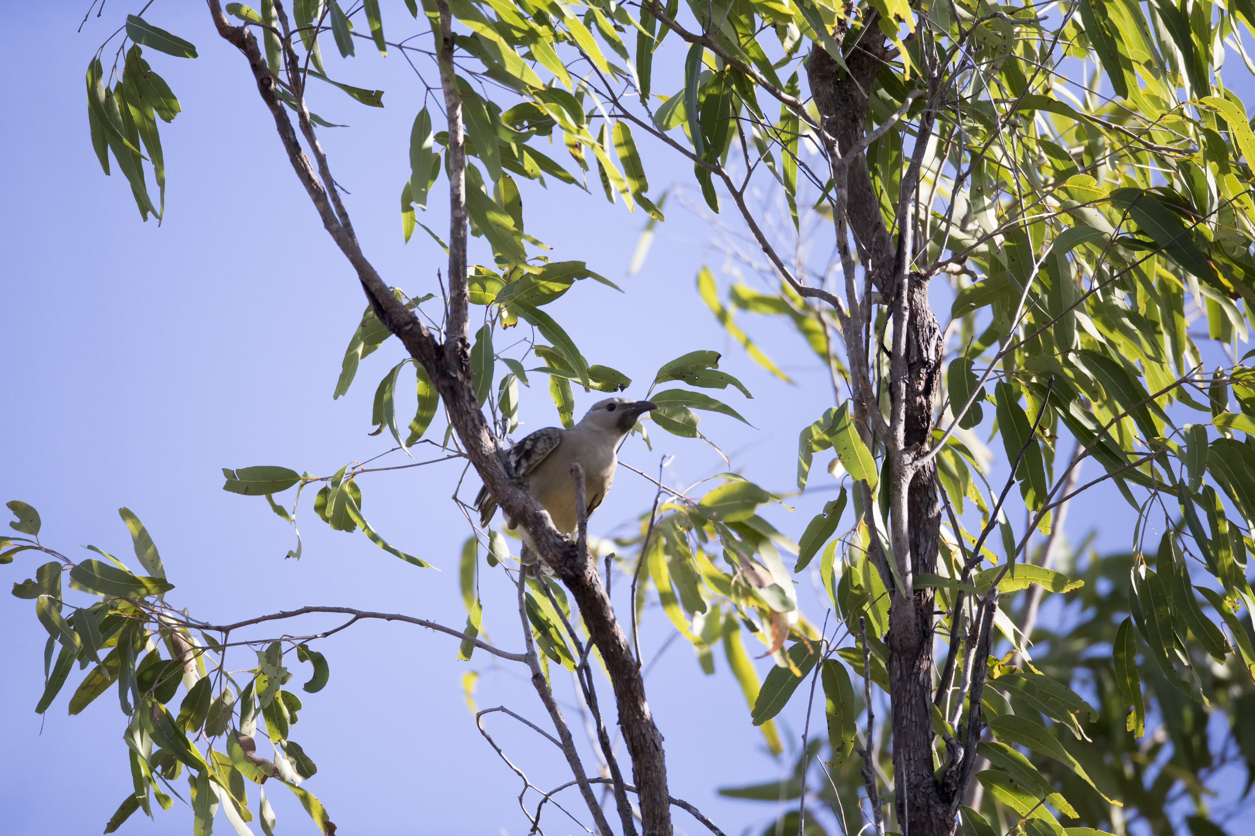 Can someone explain the dark chin on some of the Great Bowerbirds on Cape York? Its got me?